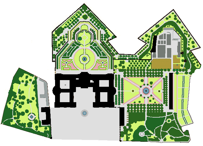 Landscape plans of the Court gardens of Würzburg Residence — in Bavaria, Germany. With 18th century Baroque gardens and English landscape parks around the palace.